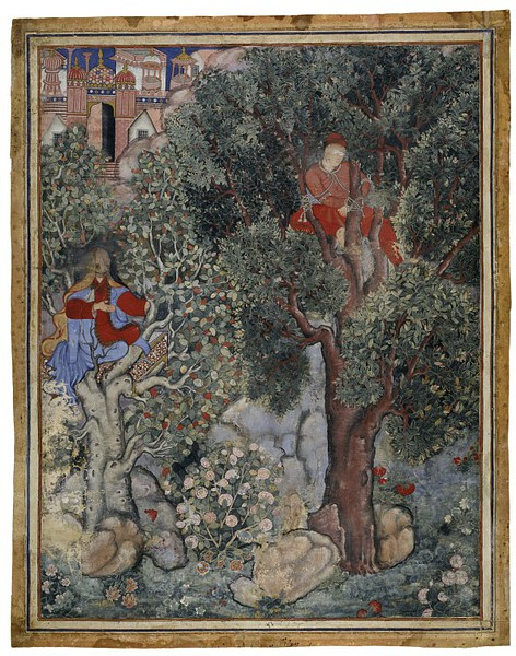 The Witch Anqarut ties Malik Iraj to a tree, ca. 1562-1577, V&A Museum no. IS.1512-1883 The Hamzanama, or 'Book of Hamza' was commissioned by the great Mughal emperor Akbar in the mid-16th century. The epic story of a character based very loosely on the life of the uncle of the Prophet Muhammad chronicles the fantastic adventures of Hamza as he and his band of heroes fight against the enemies of Islam. The stories, from a long-established oral tradition, were written down in Persian, the language of the court, in multiple volumes. These originally had 1400 illustrations, of which fewer than 200 survive today. Work probably began in about 1562 and took 15 years to complete. This illustration shows the witch Anqarut in the guise of a beautiful young woman, who hopes to seduce the handsome king Malik Iraj, whom she has captured and tied to a tree.